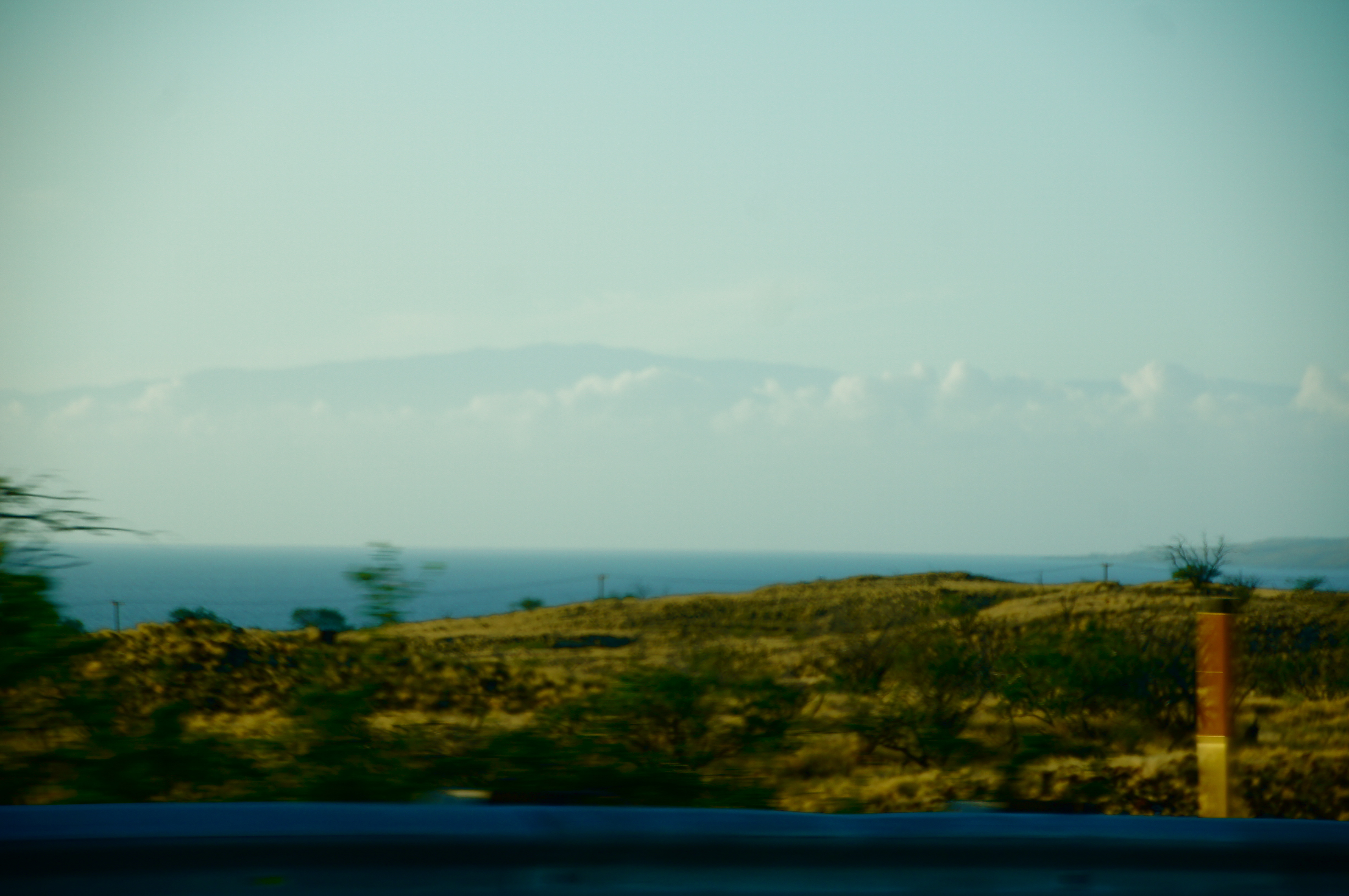 Looking northwest at Haleakala as seen from 85 kilometers/53 miles away on Big Island, Hawaii, near Kawaihae.jpg.